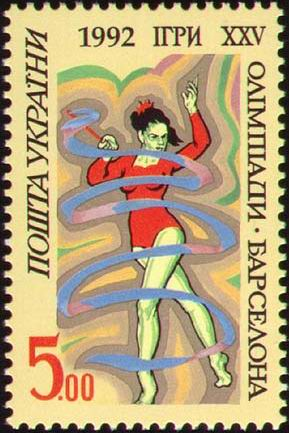 Stamp of Ukraine